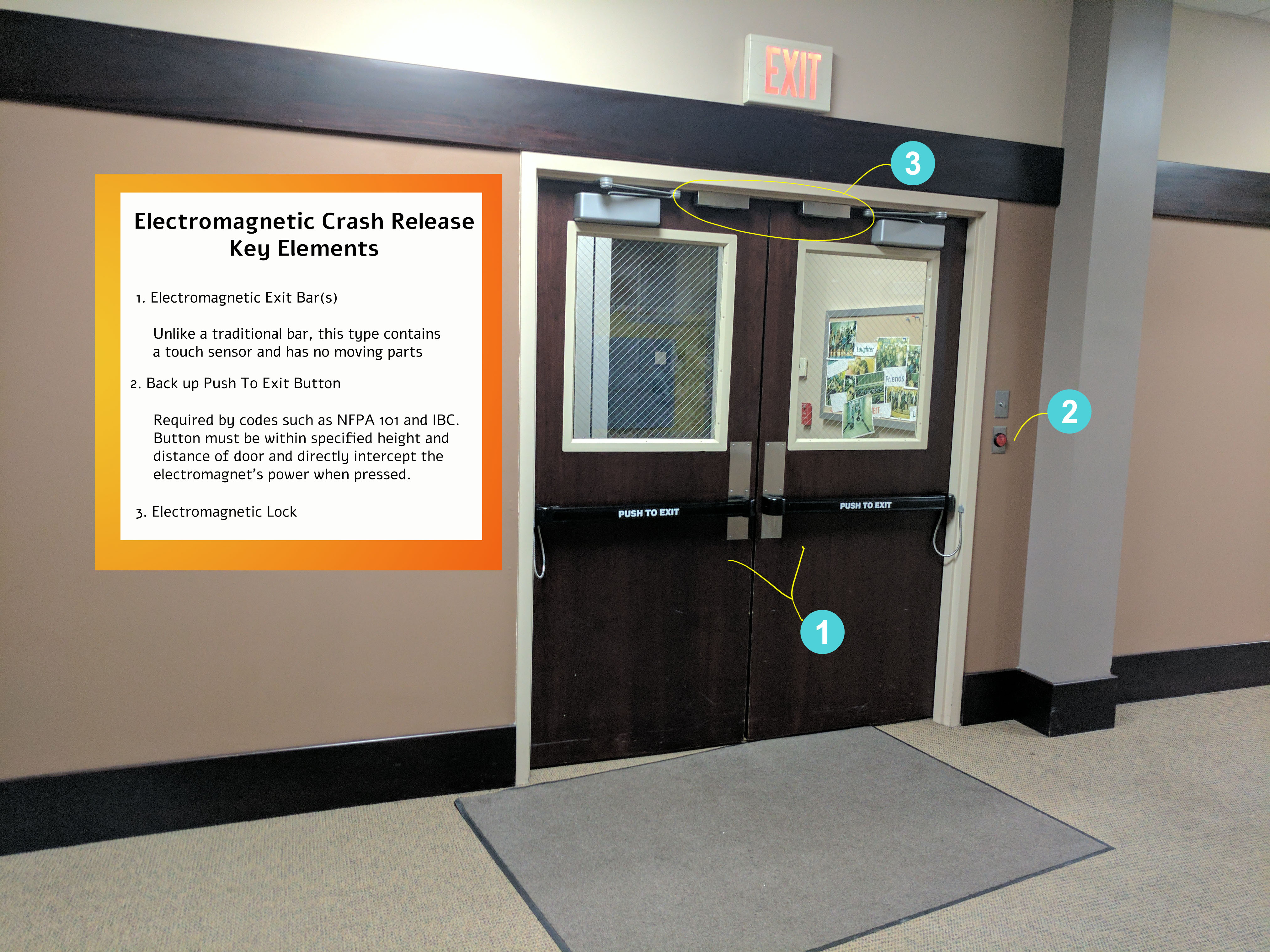 Example of doors fitted with an electric strike bar release.